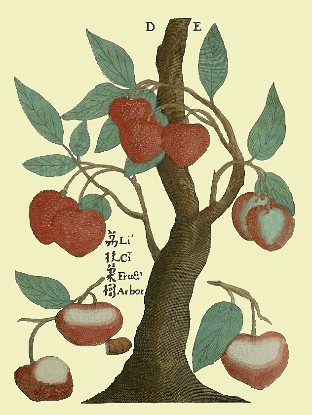 Lychee from one of the earliest natural history books about China. Jesuit Missionary author.